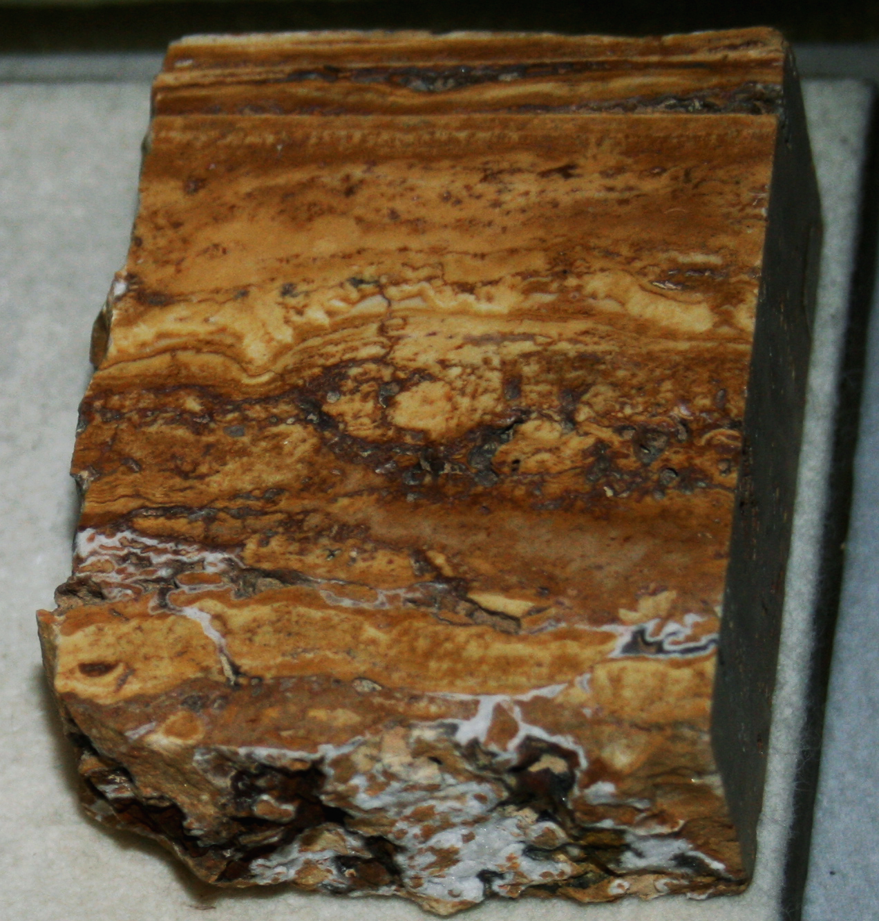 stone travertine, chemical composition: CaCO3, from collection of National Museum, Prague, Czech Republic